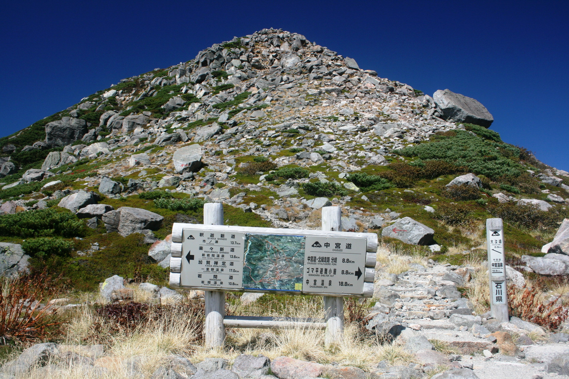 Mount_Onanji of Mount Haku